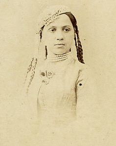 Maharani Bamba Daleep Singh, born Bamba Muller (c.1848 - 1886), was the daughter of a slave and a married German banker. Brought up by Christian missionaries she married Dalip Singh and became Maharani Bamba.